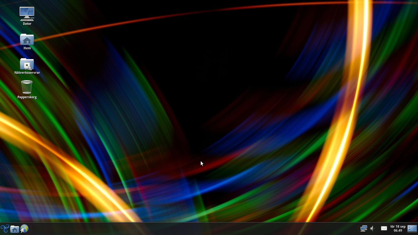 Screenshot from Trisquel GNU/Linux 4.0 LTS Taranis. Entirely free software GNU/Linux Distribution.